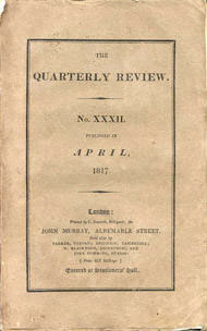 From my own collection.